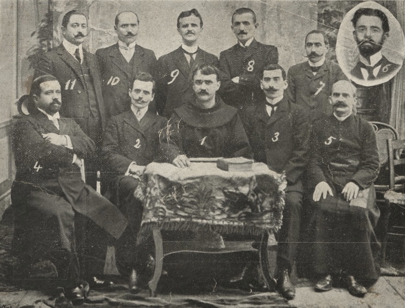 The Commission of the Congress of Manastir in 1908. From image: Commissione Dell'alfabeto Monastir 1908. Foto Kel Marubi. Gjergj Fishta Midhat Frashëri Luigi Gurakuqi Gjergj Qiriazi Dom Ndre Mjeda Grigor Cilka Dhimitër Buda Shahin Kolonja Sotir Peçi Bajo Topulli Nyz'het Vrioni